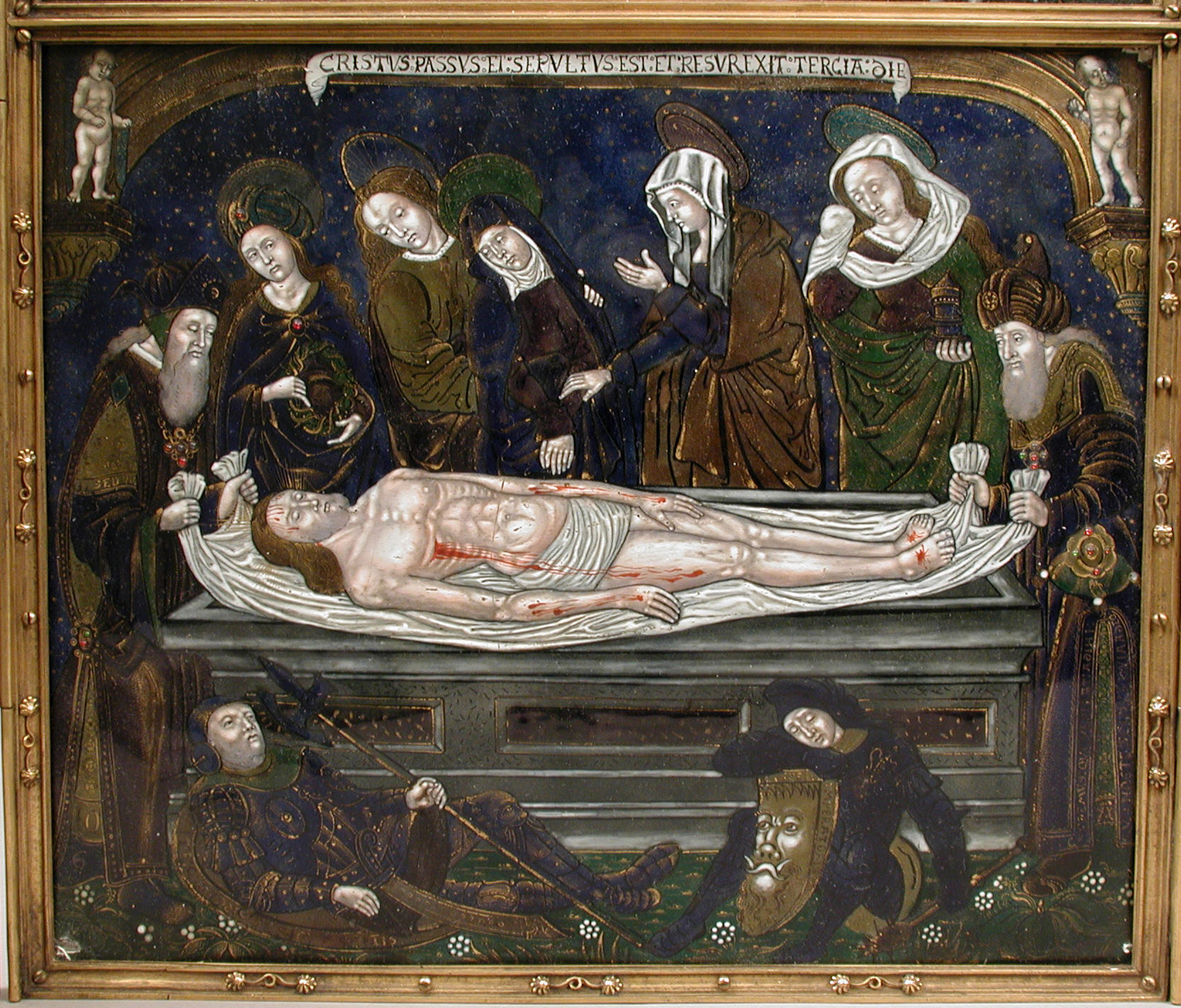 French; Triptych; Enamels-Painted